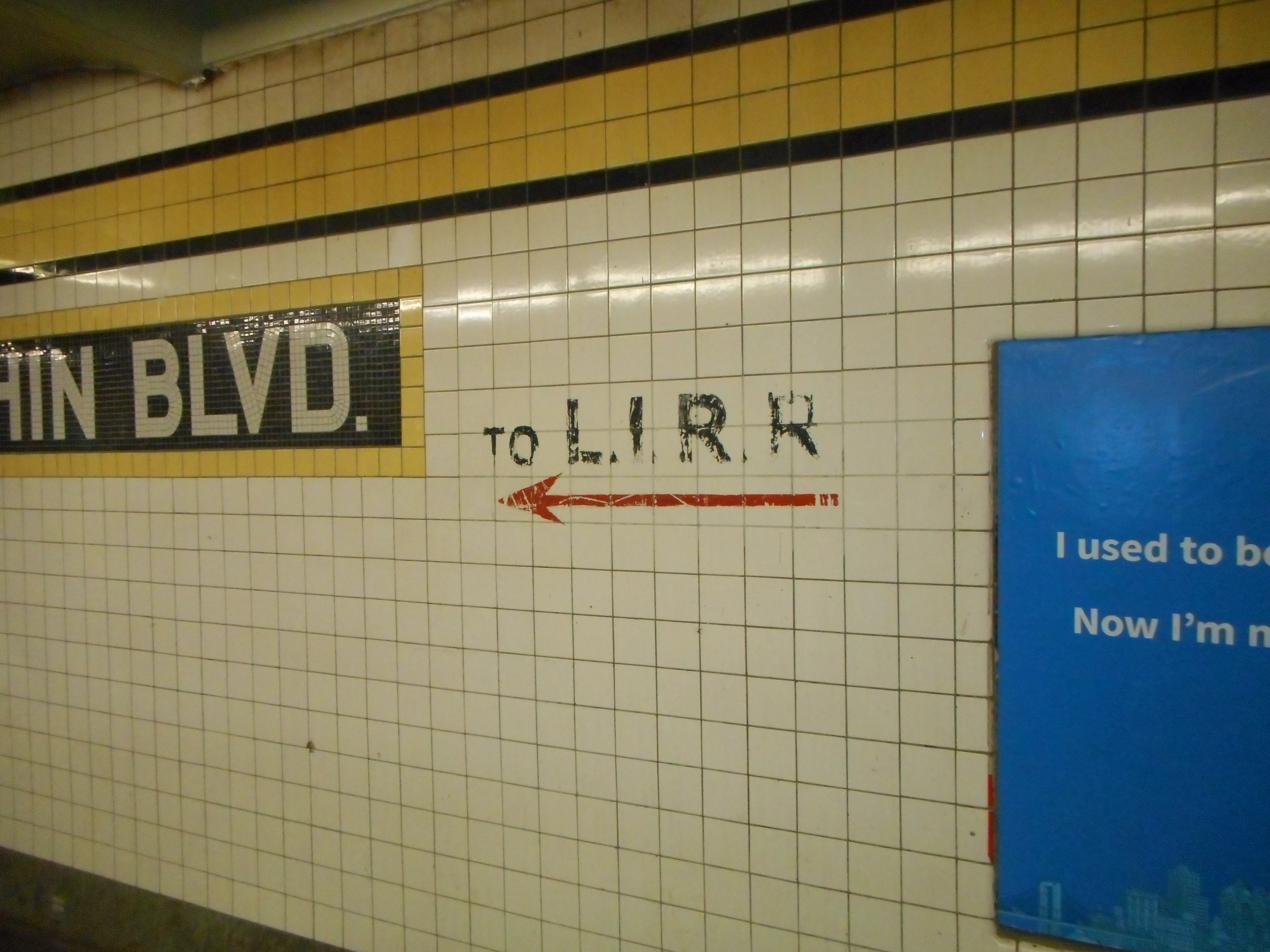 A unique red-painted arrow on the tiles of the Sutphin Boulevard subway station on the IND Queens Boulevard Line in the Jamaica section of Queens, New York City, directing commuters to an exit leading to the Jamaica LIRR station, which in reality is a few blocks south of this station.